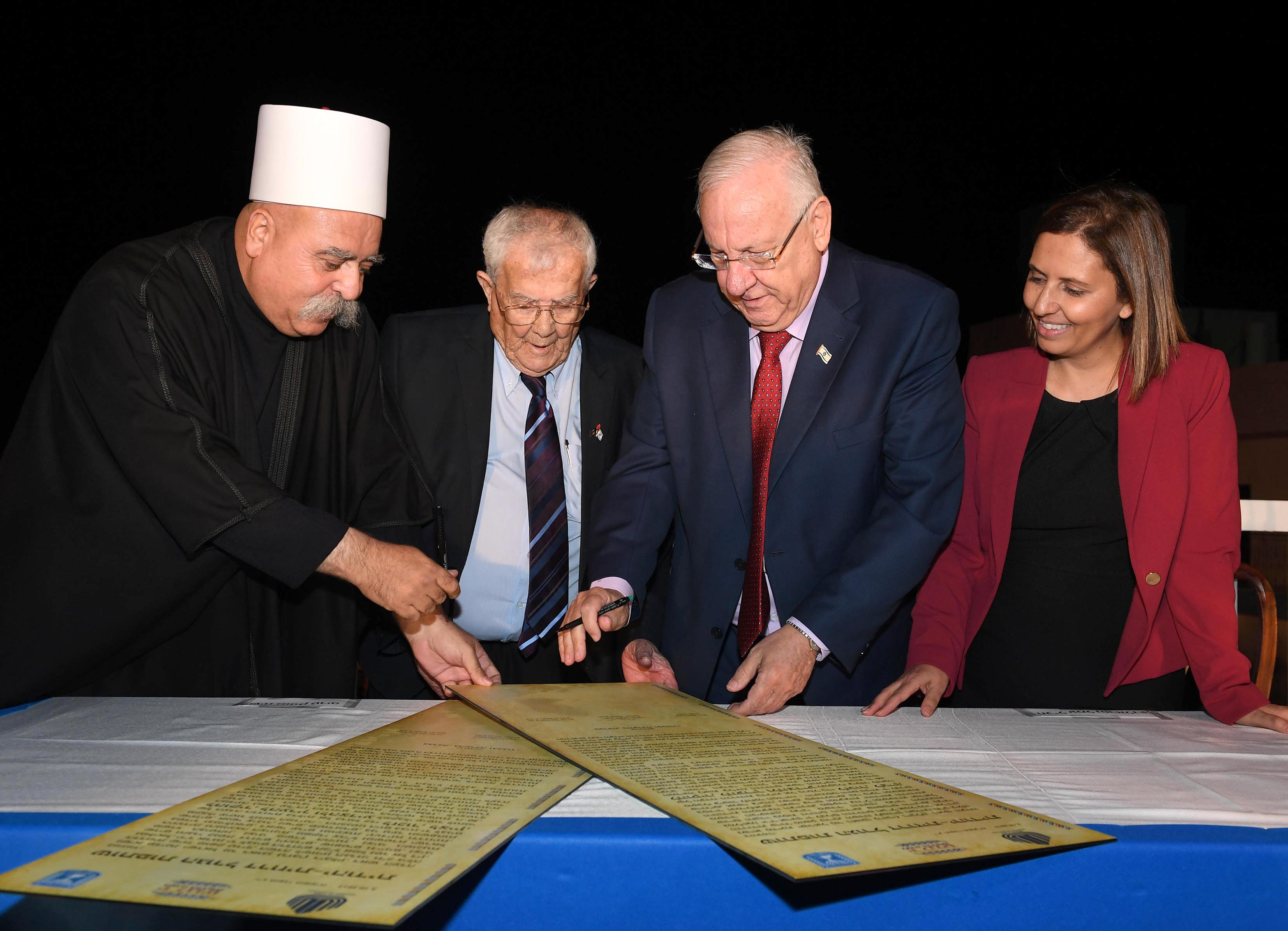 President of the State of Israel, Reuven Rivlin, in a ceremony honoring the 90 Druze fighters who fought in the battles for Israel's independence, which took place in Daliyat al-Karmel. Tuesday, October 3, 2017. Photo Credit: Mark Neyman / GPO.